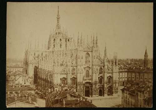 Luigi Sacchi (1805-1861) - Piazza Duomo in Milan, 1850s.